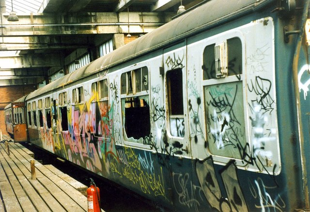 Wanton Vandalism! Stored inside an old locomotive shed at Heaton, these coaches were offered for sale to preservation societies, but before any were purchased, vandals had a go at wrecking them. This coach is a Mk1 TSO (Tourist Second Open).